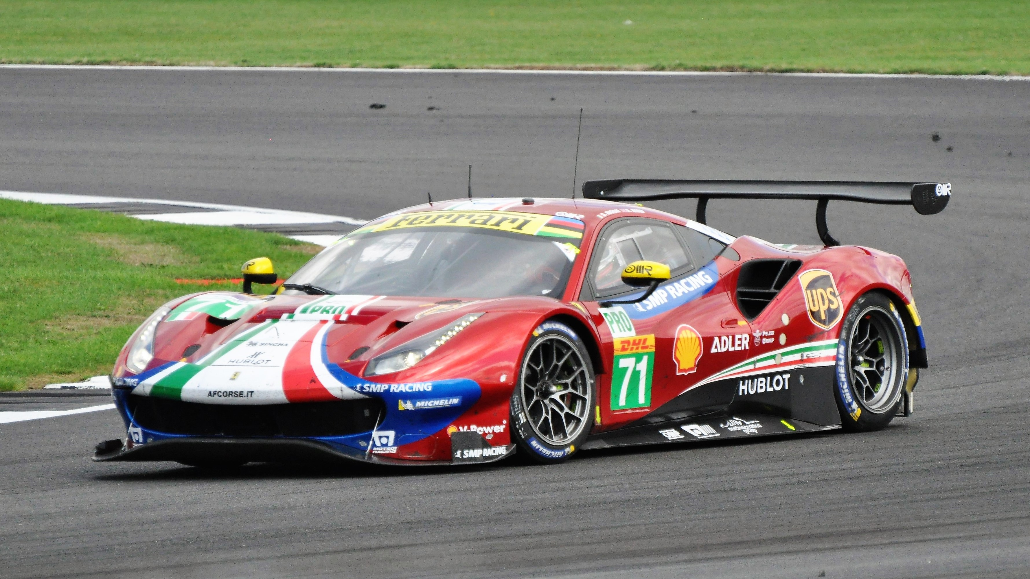 Italian driver Davide Rigon in the number 71 AF Corse entry, passing through Luffield corner during the 2018 6 Hours of Silverstone race. Rigon and his co-driver, British driver Sam Bird, suffered mechanical troubles and finished only 16th in the LMGTE Pro class.